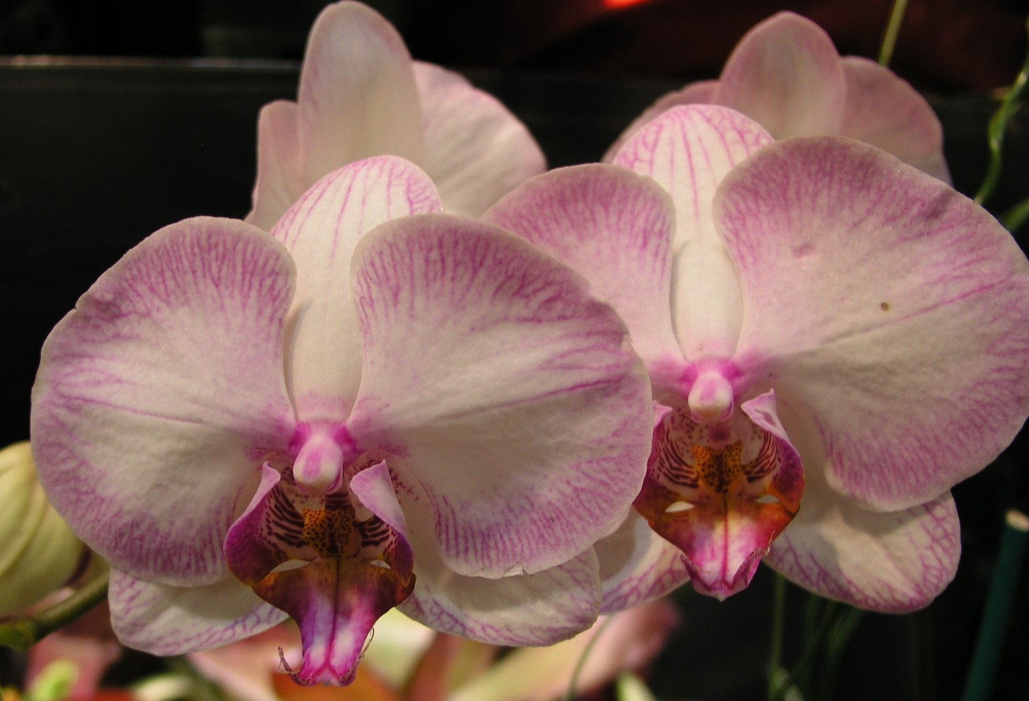 twin orchids